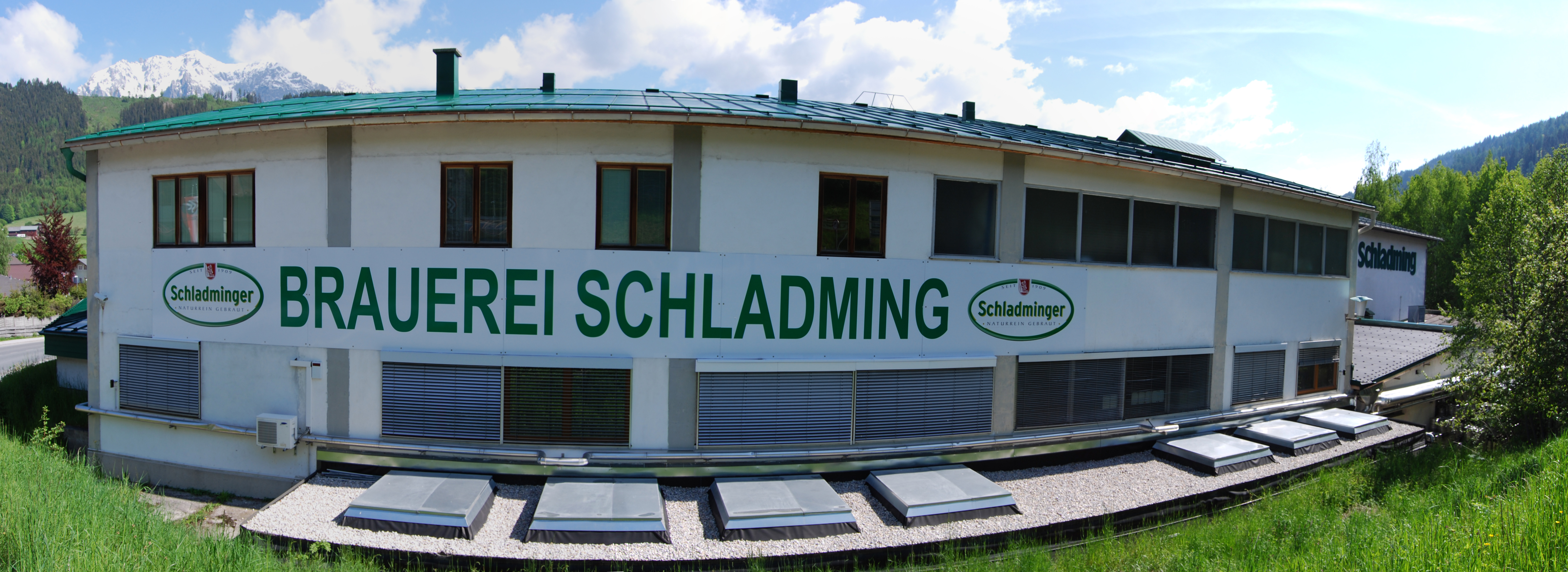 A brewery in Schladming, Austria. Part 1.